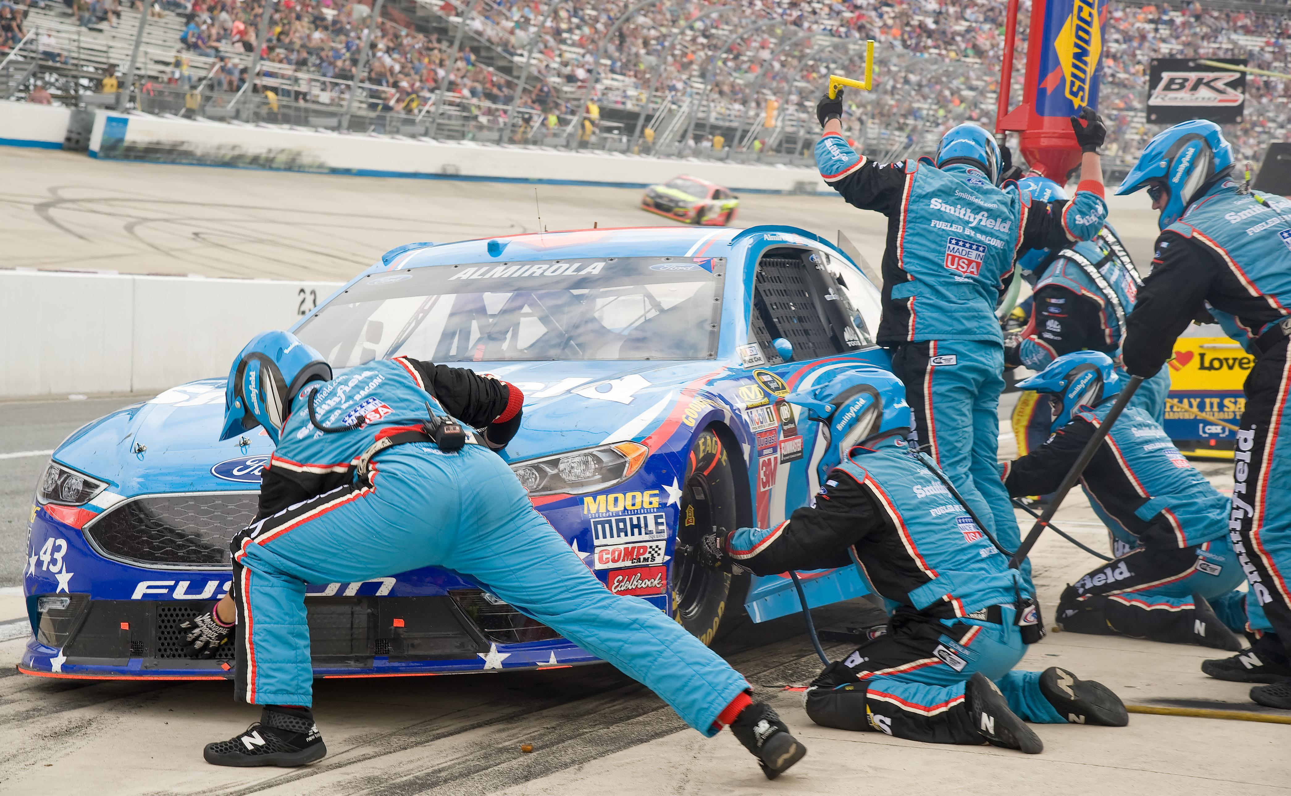 Aric Almirola, NASCAR Sprint Cup Series driver for the No. 43 Smithfield Ford, comes in for a pit stop during the Citizen Soldier 400 NASCAR Sprint Cup Series race Oct. 2, 2016, at Dover International Speedway, Dover, Del. The U.S. Air Force, one of many sponsors of the No. 43 car, started in the 27th position and finished the race in 16th place. (U.S. Air Force photo by Roland Balik)